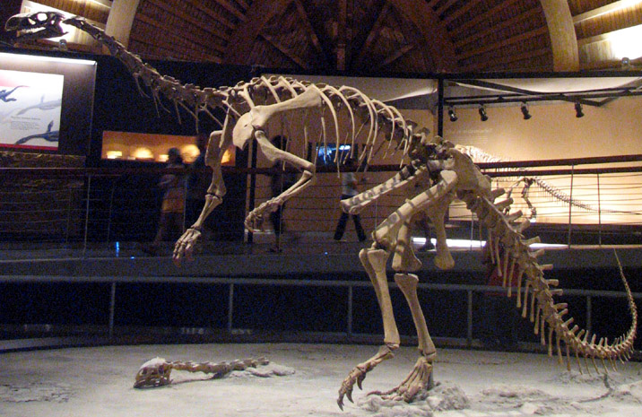 Plateosaurus at the Museo del Jurásico de Asturias